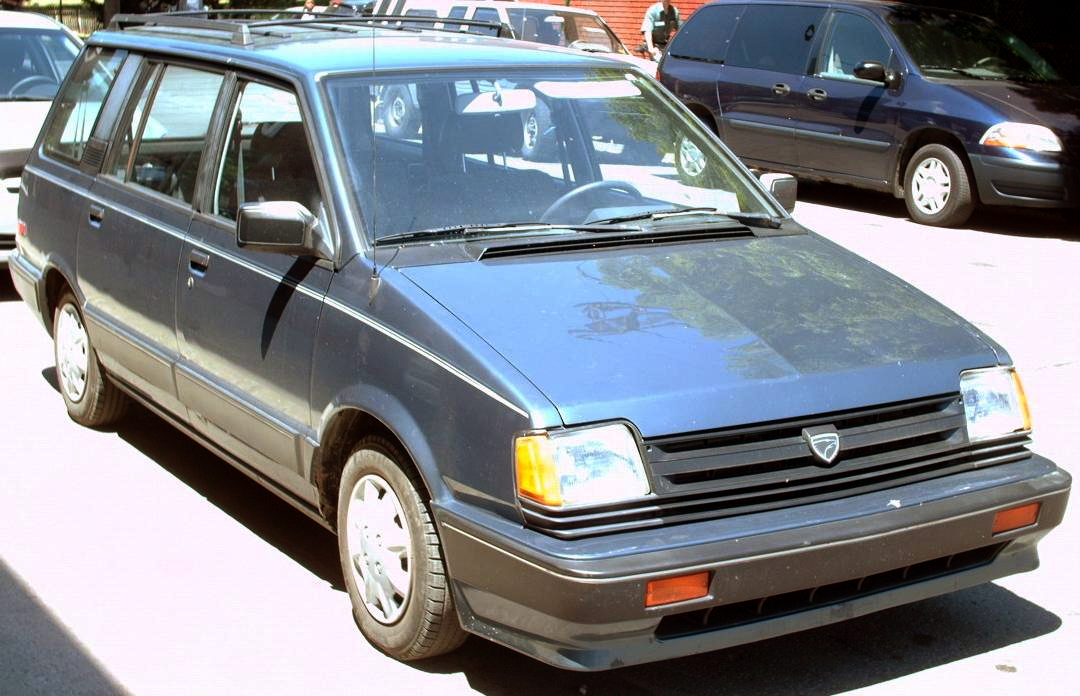 1988-1991 Eagle Vista Wagon photographed in Montreal, Quebec, Canada.